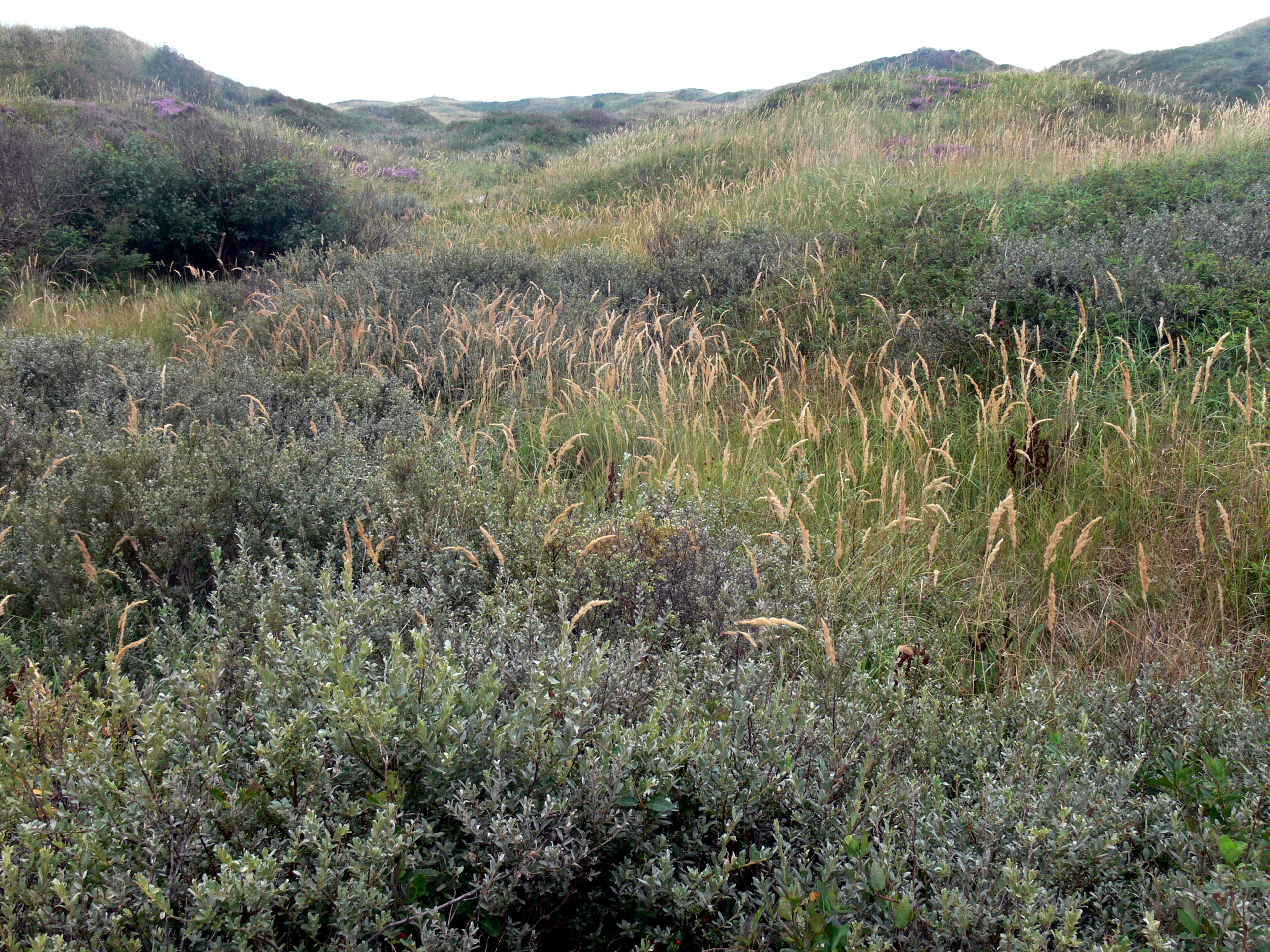 Texel. Old Dunes near Ecomare ( De Koog )